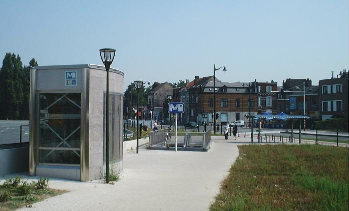 Entrance of CERIA / COOVI station, Brussels metro